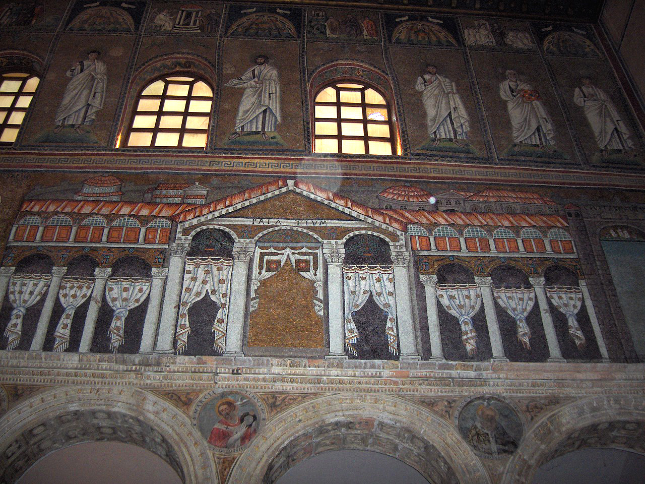 Basilica of Sant'Apollinare Nuovo in Ravenna, Italy: "The Palace of Theodoric". Mosaic of a Ravennate italian-byzantine workshop, completed within 526 AD by the so-called "Master of Sant'Apollinare". After the defeat of Theodoric, the wall mosaics in the Palace and Cathedral were redone by the Byzantines to remove Gothic features. The figures in this mosaic were replaced by curtains, presumably due to lack of time. Several remnants of the earlier work are visible, such as a portion of an arm on the third pillar from the left.